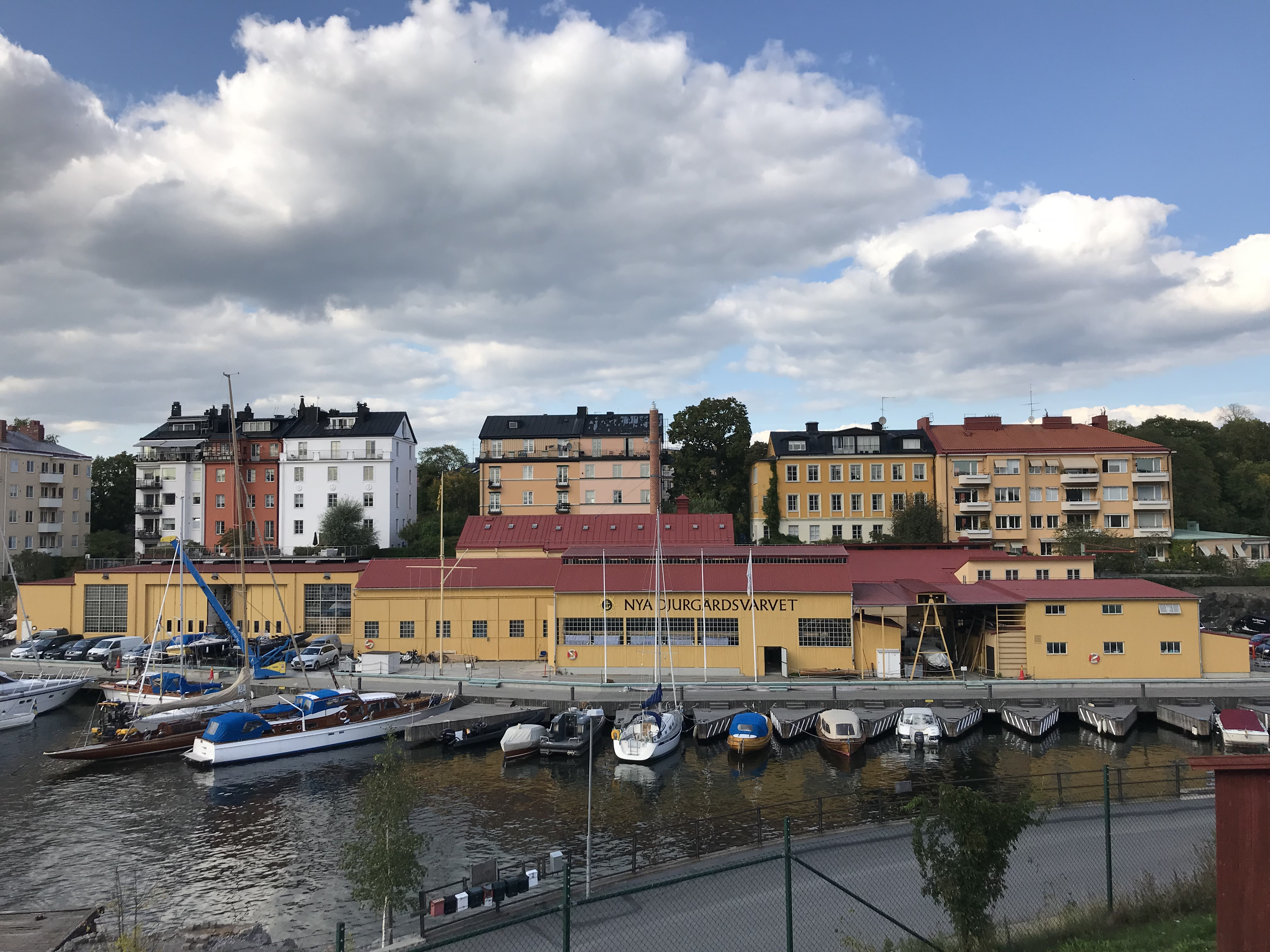 Nya Djurgårdsvarvet, "New Djurgården shipyard", seen from Beckholmen. Stockholm, September 3, 2018. The shipyard was totally renovated 2007-2012.